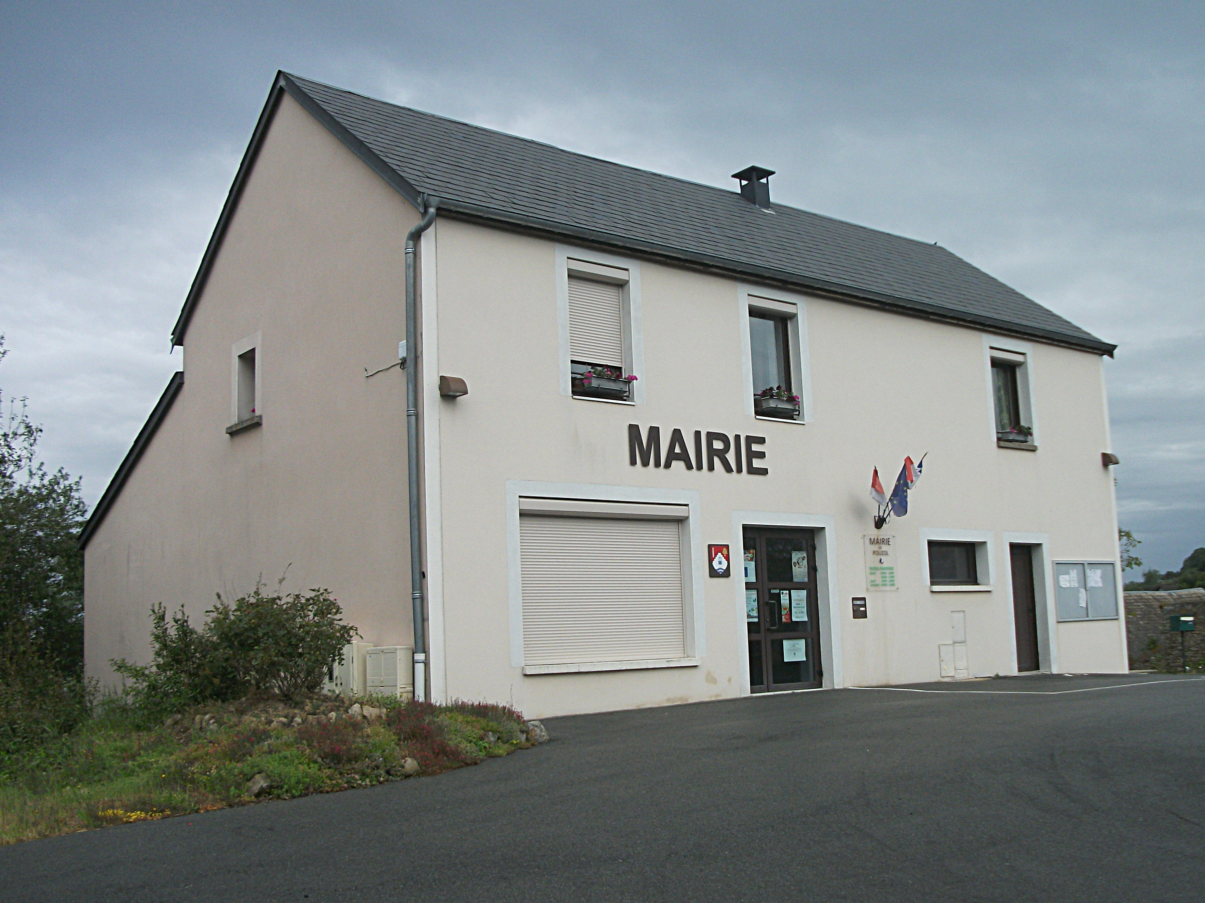 Town hall of Pouzol, Puy-de-Dôme, Auvergne-Rhône-Alpes, France. [18489]